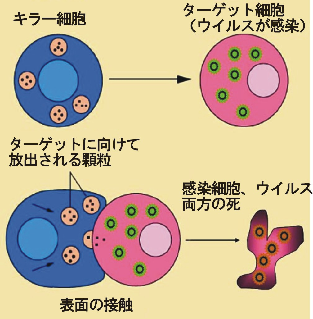 Killer T cells—also called cytotoxic T lymphocytes or CTLs-directly attack other cells carrying certain foreign or abnormal molecules on their surfaces. CTLs are especially useful for attacking viruses because viruses often hide from other parts of the immune system while they grow inside infected cells. CTLs recognize small fragments of these viruses peeking out from the cell membrane and launch an attack to kill the cell.